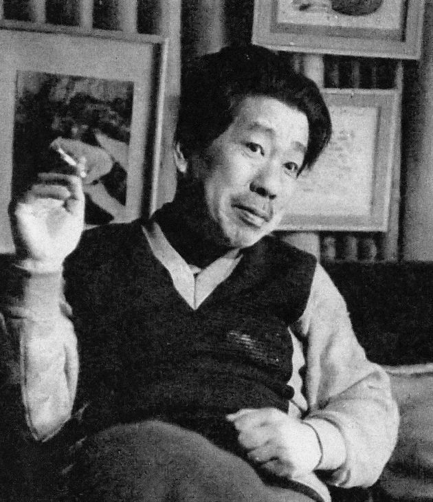 Sato Hachiro